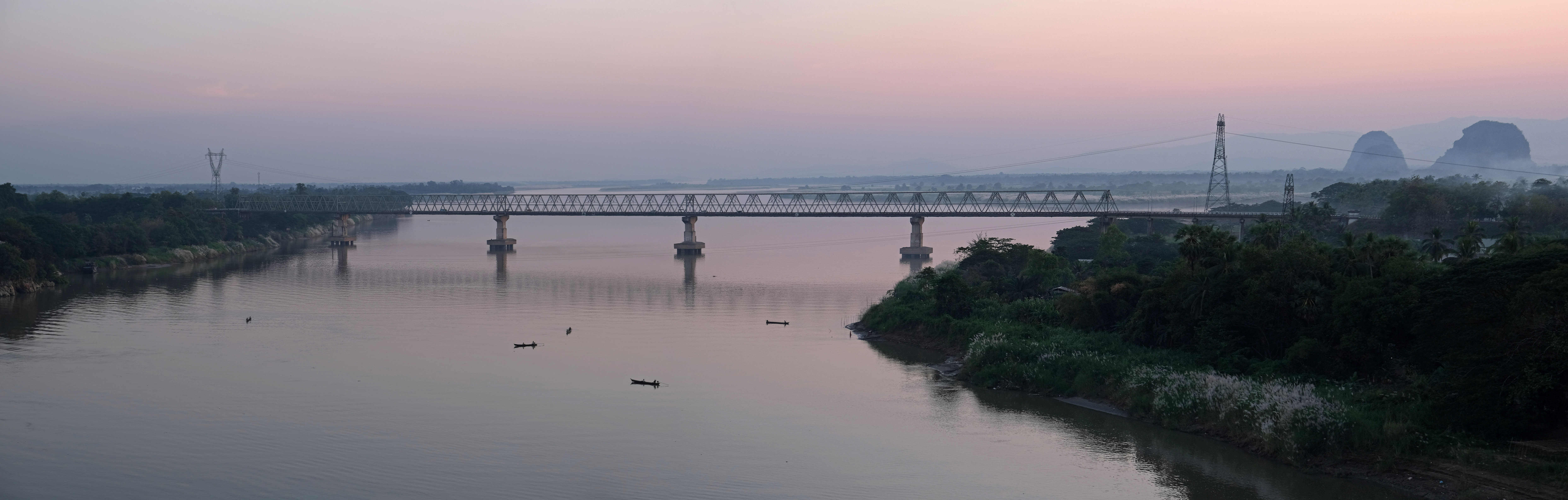 Thanlwin Bridge seen from Bat Cave, Hpa An.